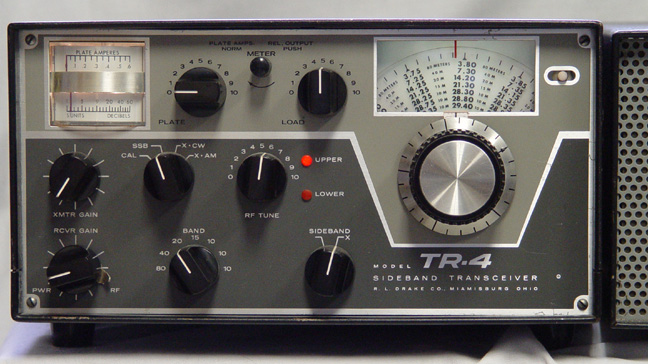 TR-4 vista de Frende